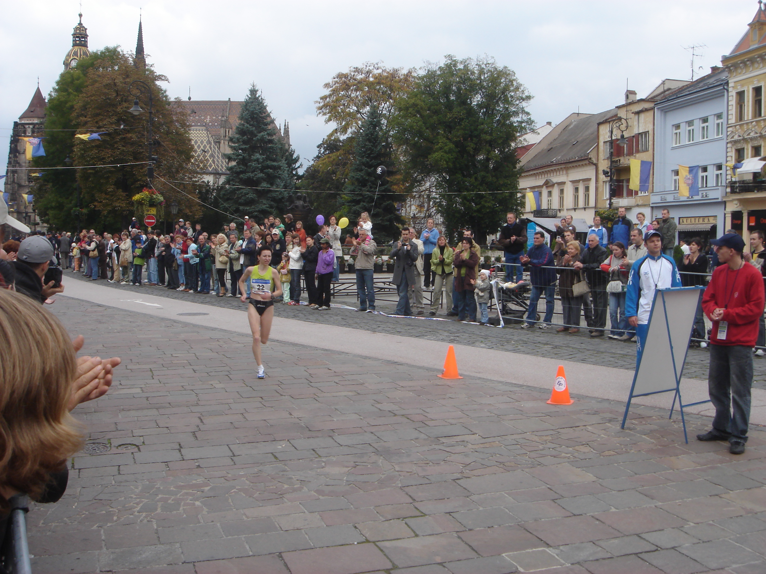 84th International Peace Marathon in Kosice, Slovakia